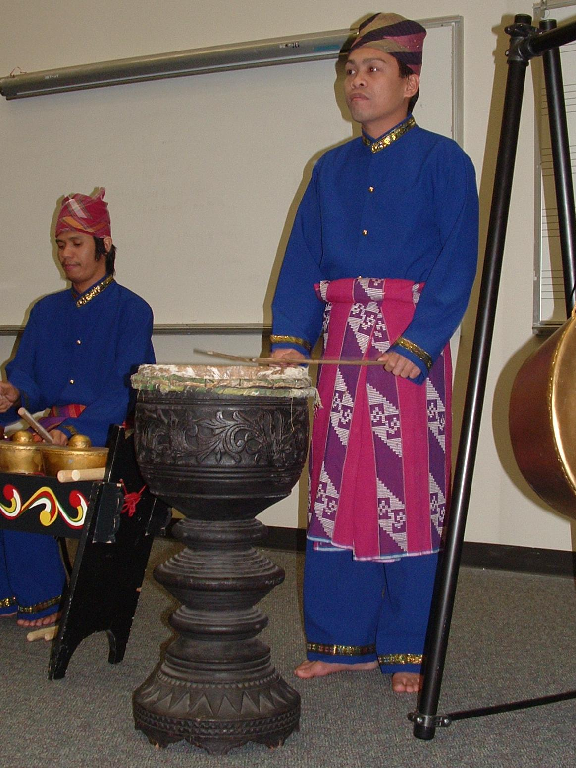 The dabakan is a Philippine, single-headed, drum made of jackfruit/coconut lumber topped with a lizard or goat skin drumhead. It’s the only non-drum instrument of the kulintang ensemble. In this image, a Magui Master Artist playing the dabakan during a kulintang performance.